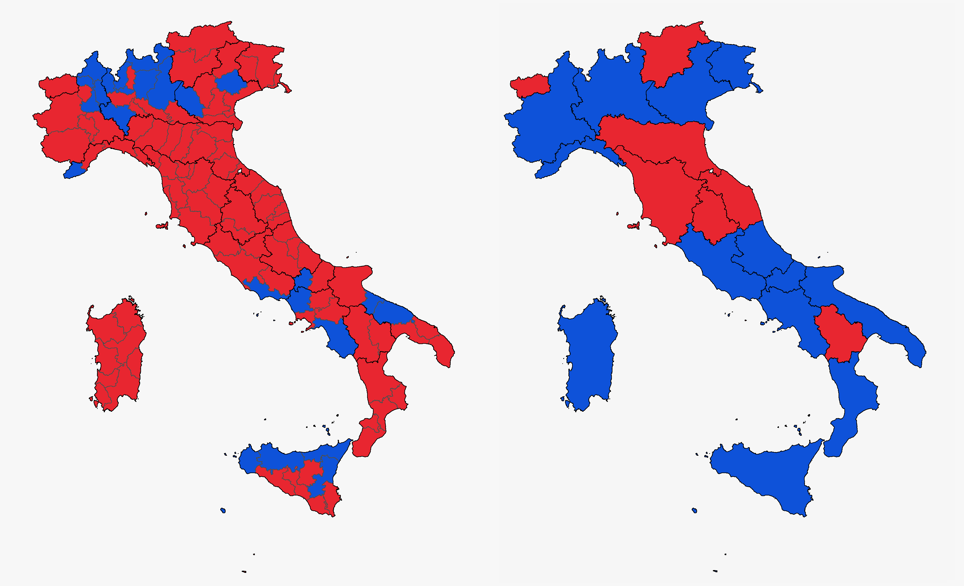 Italian 2006 election map